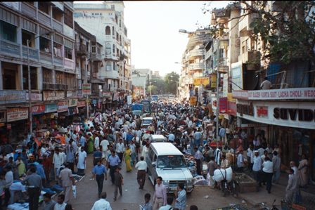 Shot in Suburb of Mumbai Spring 2004